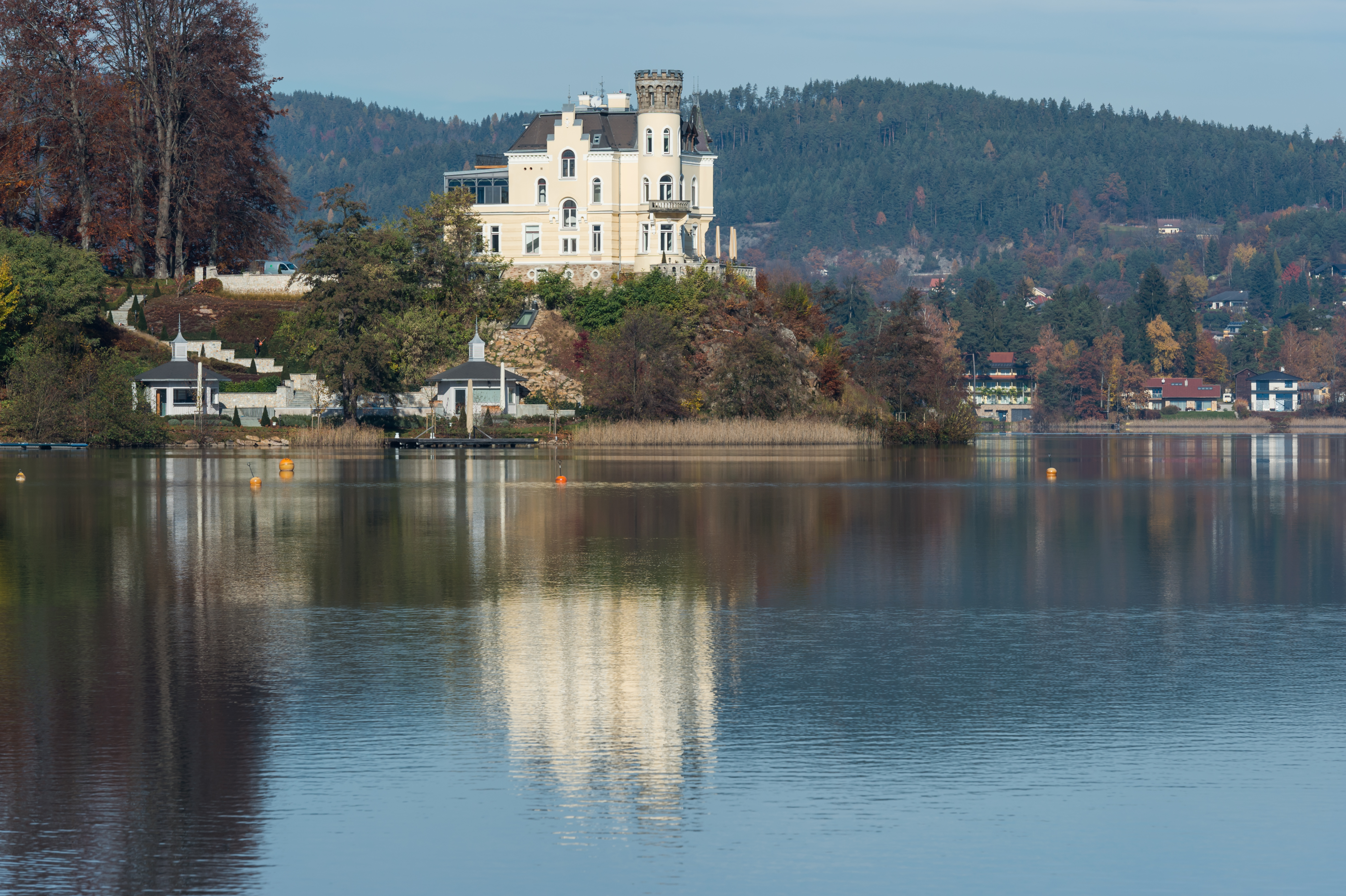 Castle "Small Miramar" (year of creation 1898) in Reifnitz, municipality Maria Wörth, district Klagenfurt Land, Carinthia, Austria, EU